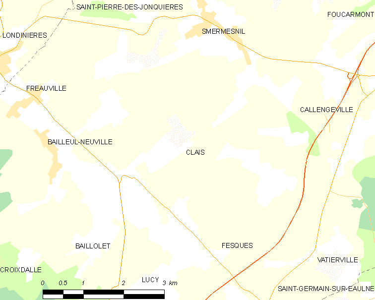 Map of French municipality Clais